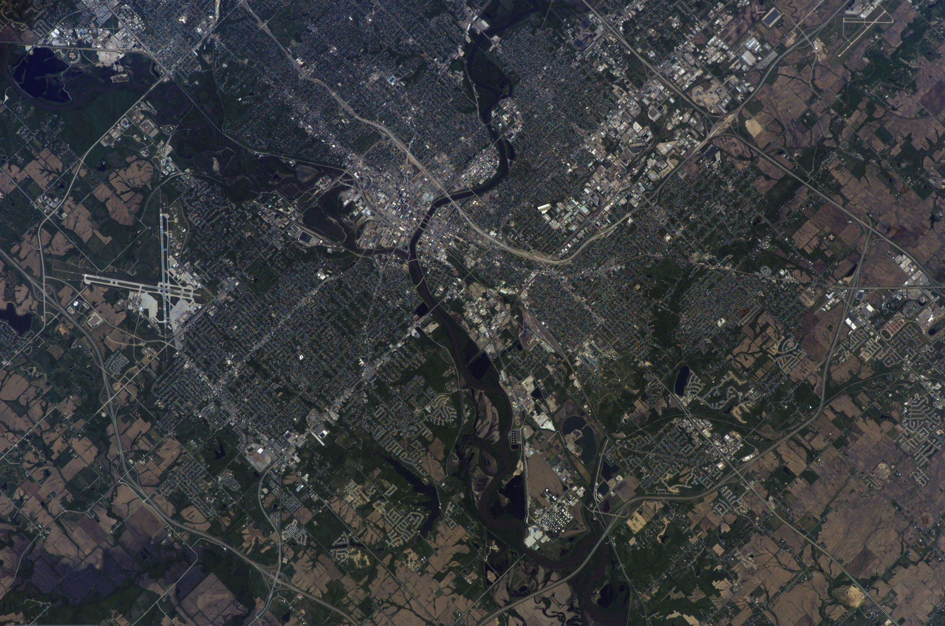 Astronaut Photography of Des Moines, Iowa taken from the International Space Station (ISS)